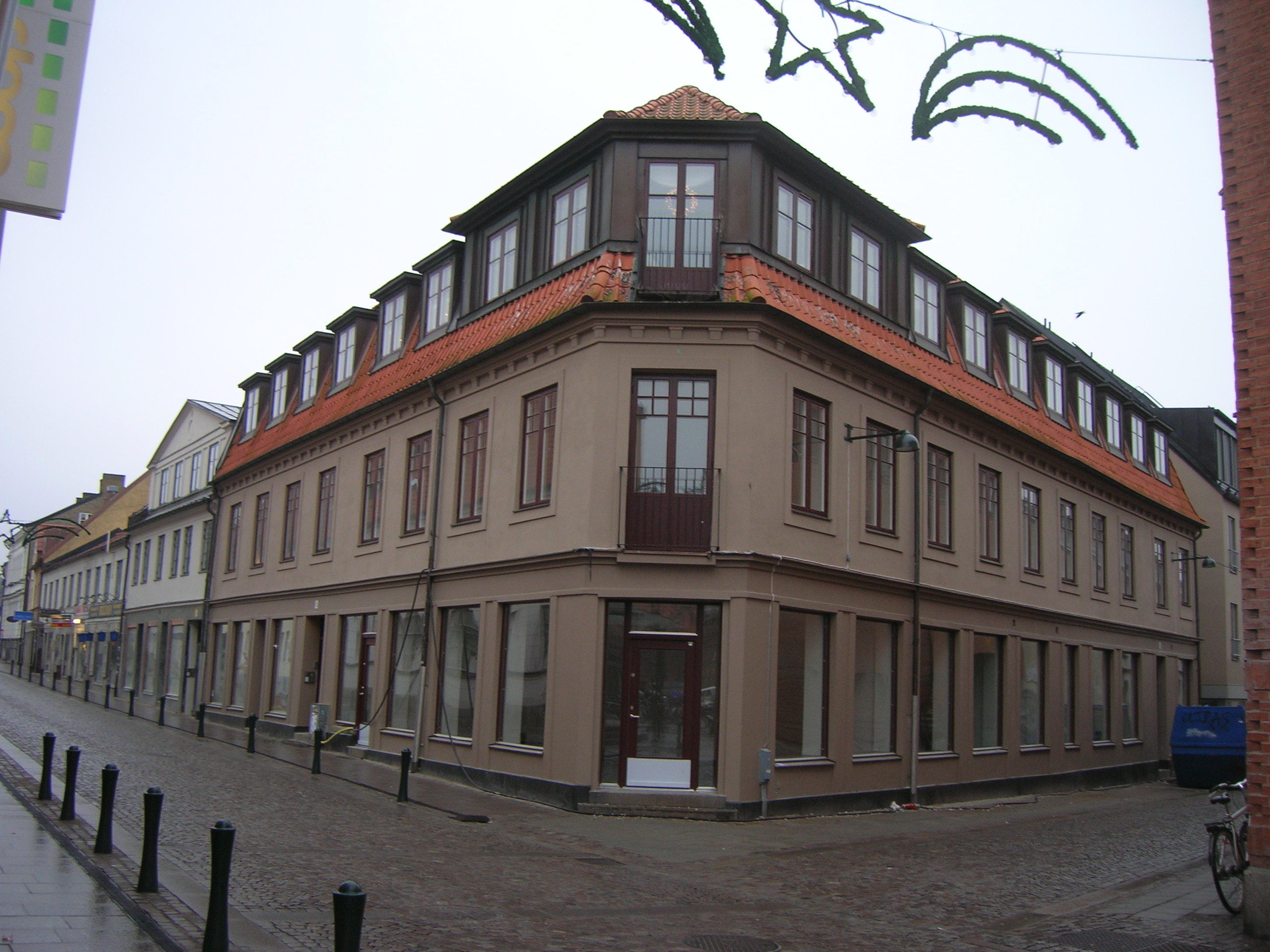 Sesamhuset, a building in Lund.